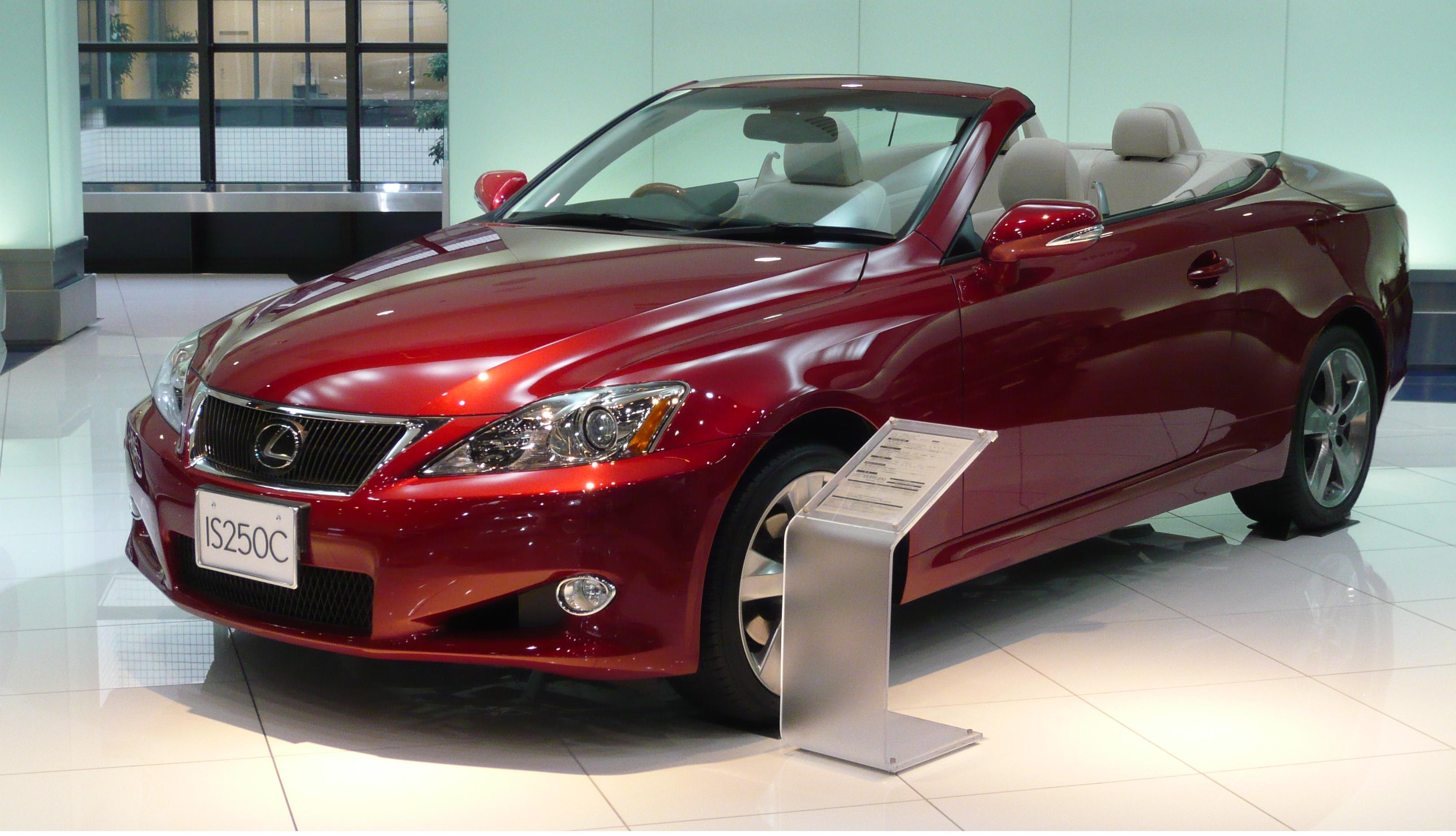 IS250C